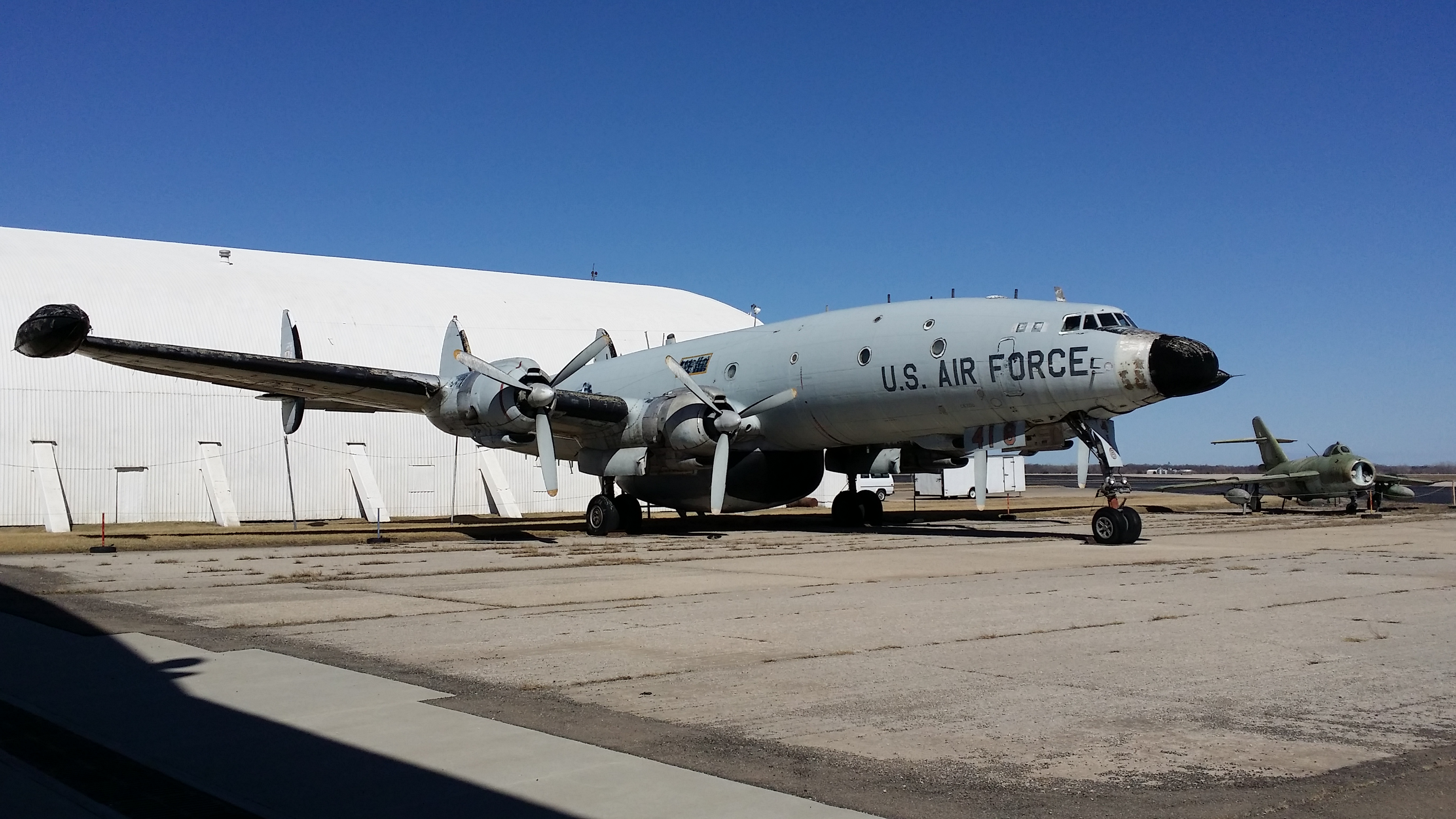 Williamsport, KS, USA